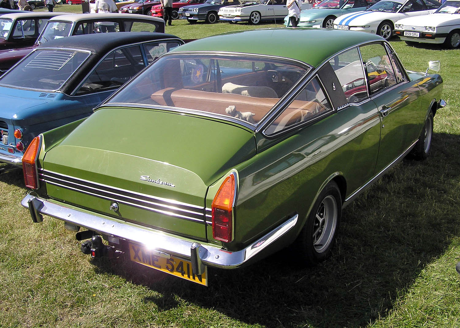 Sunbeam Rapier at Bristol Car Show, The Downs, Bristol, England.